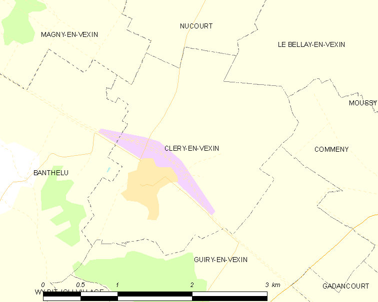 Map of French municipality Cléry-en-Vexin